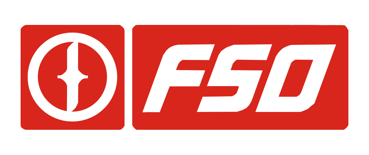 Logo of the FSO company.